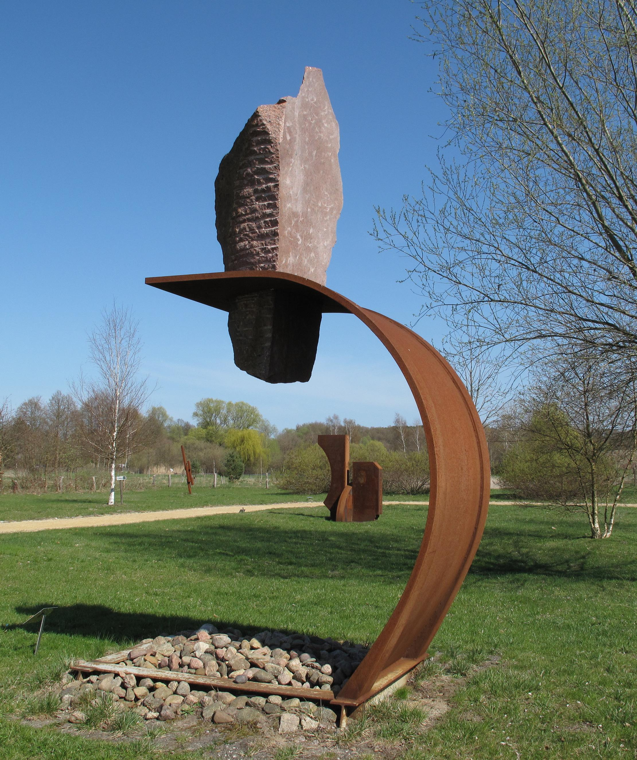 Sculpture Gegen-Satz (german for: Con-trast, antagonism), created by Karl Menzen in 2002, in the Findlingsgarten (german for: glacial erratic garden) Seddiner See in Kähnsdorf. Kähnsdorf is a part of the municipality Seddiner See in the district Potsdam-Mittelmark, state Brandenburg, Germany. The village is situated in the Nuthe-Nieplitz Nature Park at the southbank of the Großer Seddiner See (lake).